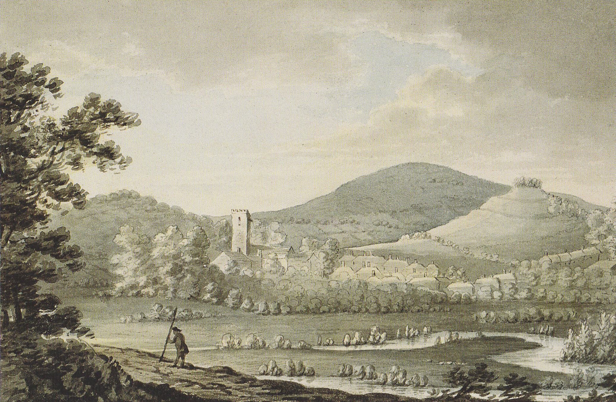 Watercolour of Bampton, Devon, by Rev. John Swete (d.1821). Devon Record Office 564M/F17/139